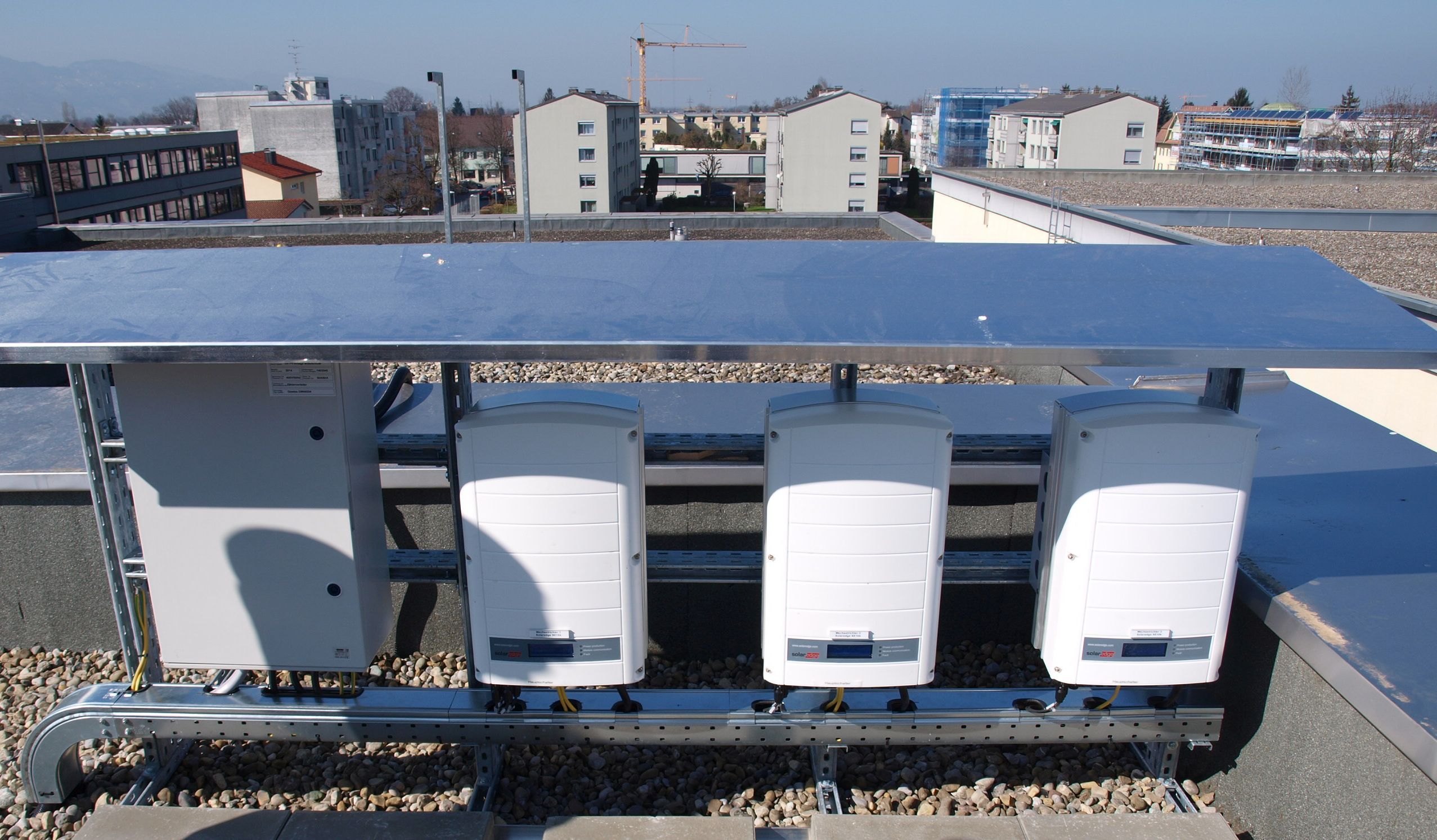 SolarEdge inverter group from the Photovoltaic-plant on the high school in Lauterach in Vorarlberg, Austria.